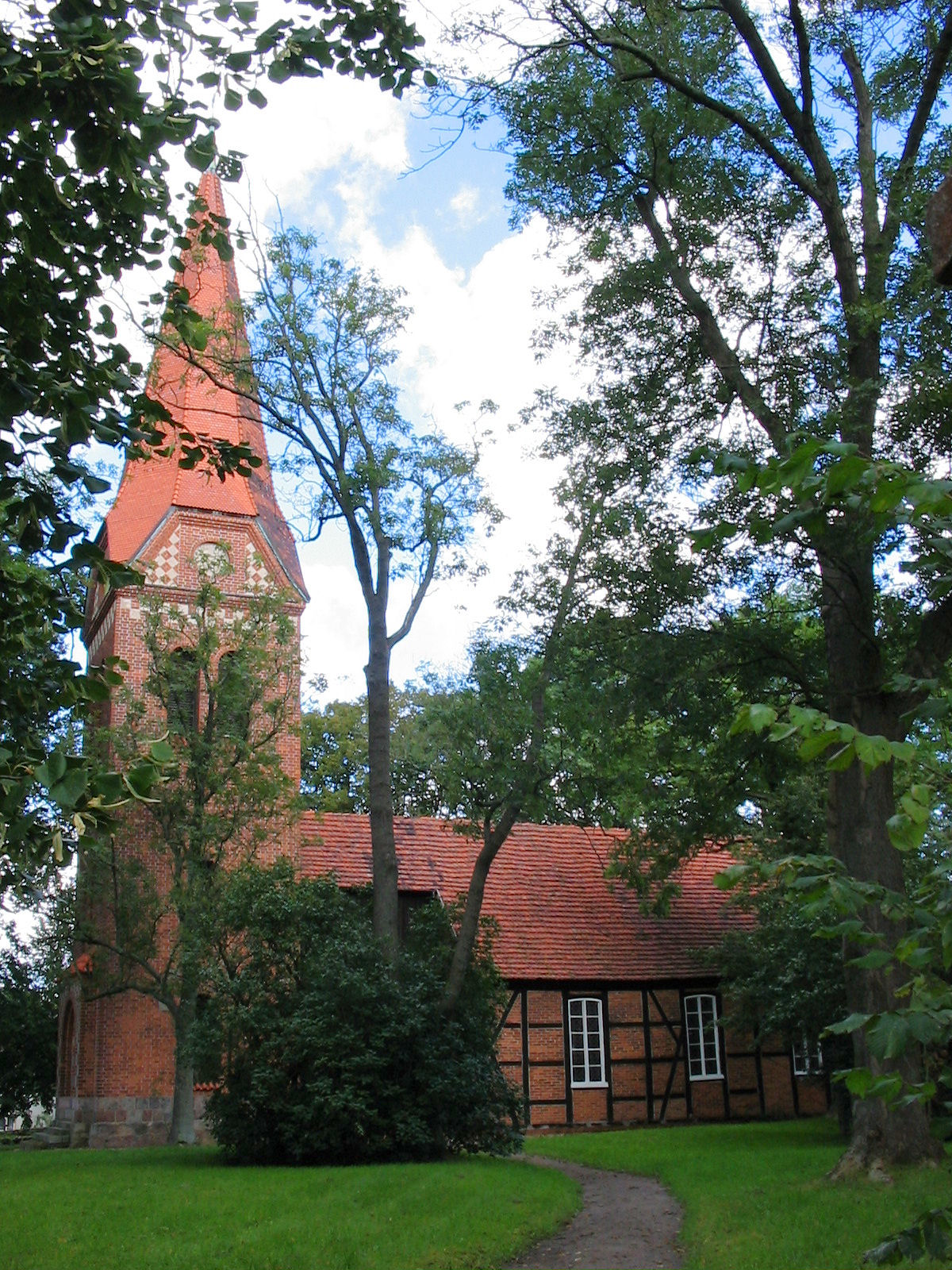 Church in Marnitz, district Ludwigslust-Parchim, Mecklenburg-Vorpommern, Germany